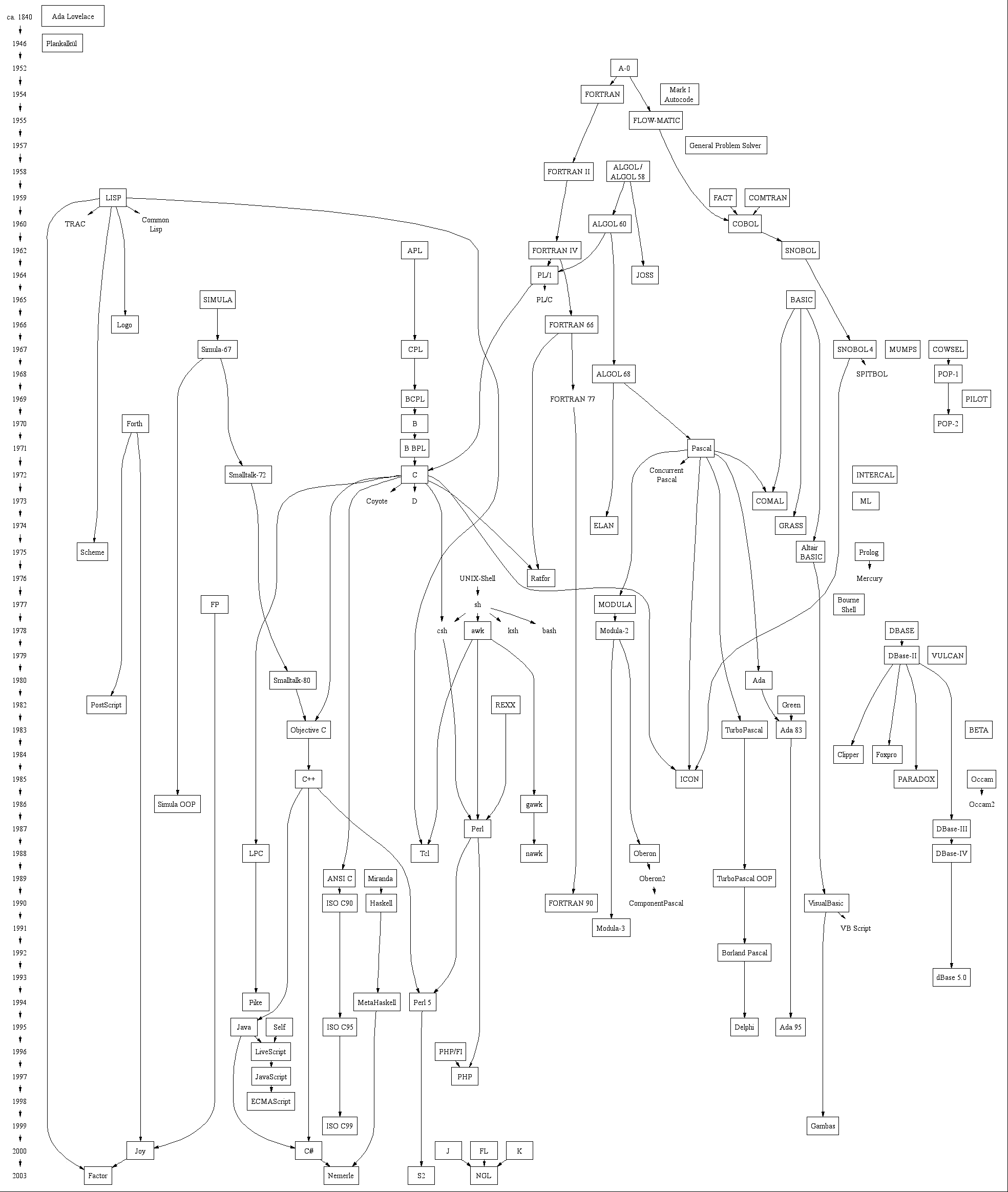 based on the version of "StammbaumProgrammiersprachen.jpg" which was more than 17,500 KB, I create a clean version in SVG format that can be used in all human languages. Previously was some German, at the beginning of the images Diagram. Now the file is 685 KB. The images shows most programming languages and their relations from mid 18 hundreds up to 2003.